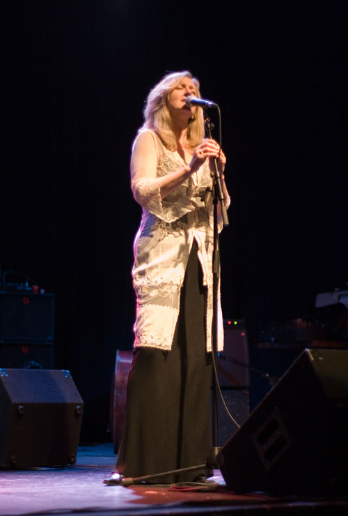 Alexis Kochan performing with Paris to Kyiv at the West End Cultural Centre in Winnipeg